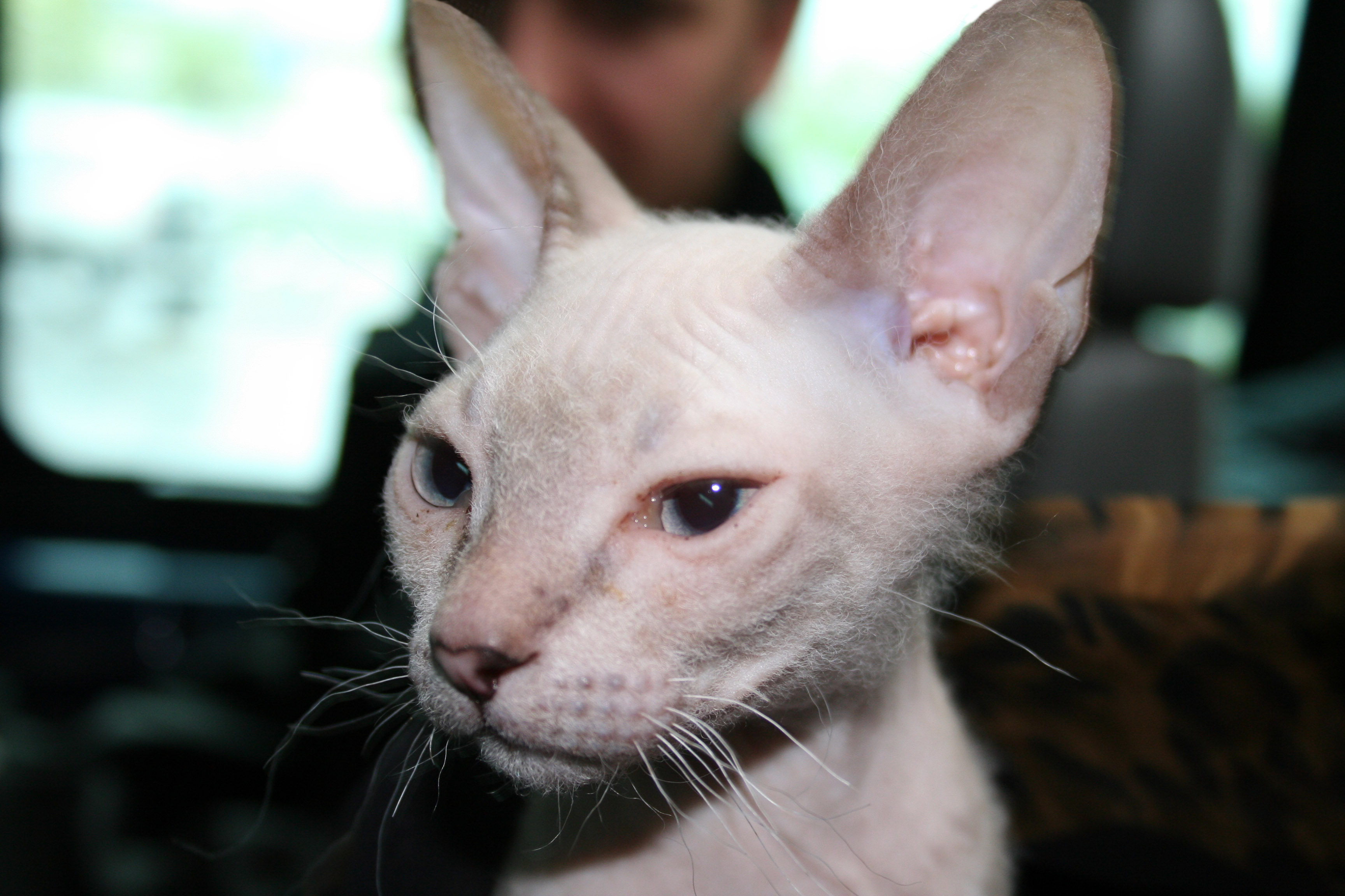 Kitty of the sort Donskoy Sphinx